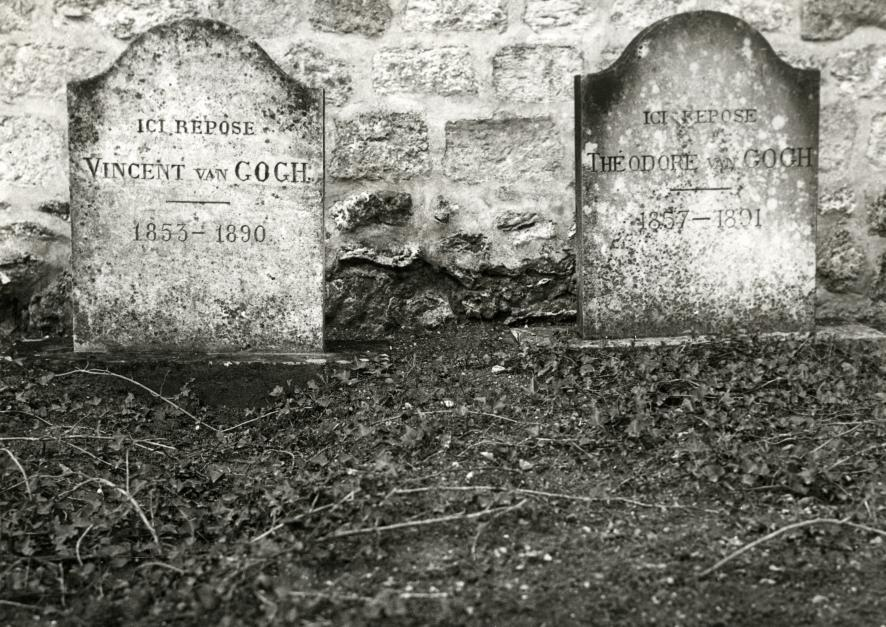 The graves of the famous Dutch painter Vincent van Gogh (1853-1890) and his brother Theo [Theodore] van Gogh (1857-1891) at the churchyard in Auvers-sur-Oise, France. Photo out of 1927